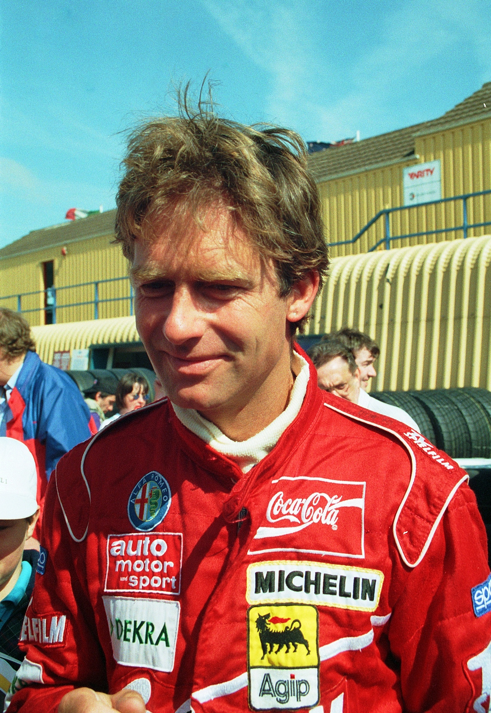 Christian Danner - Alfa Romeo 155 V6 Ti in the paddock at Donington 1995